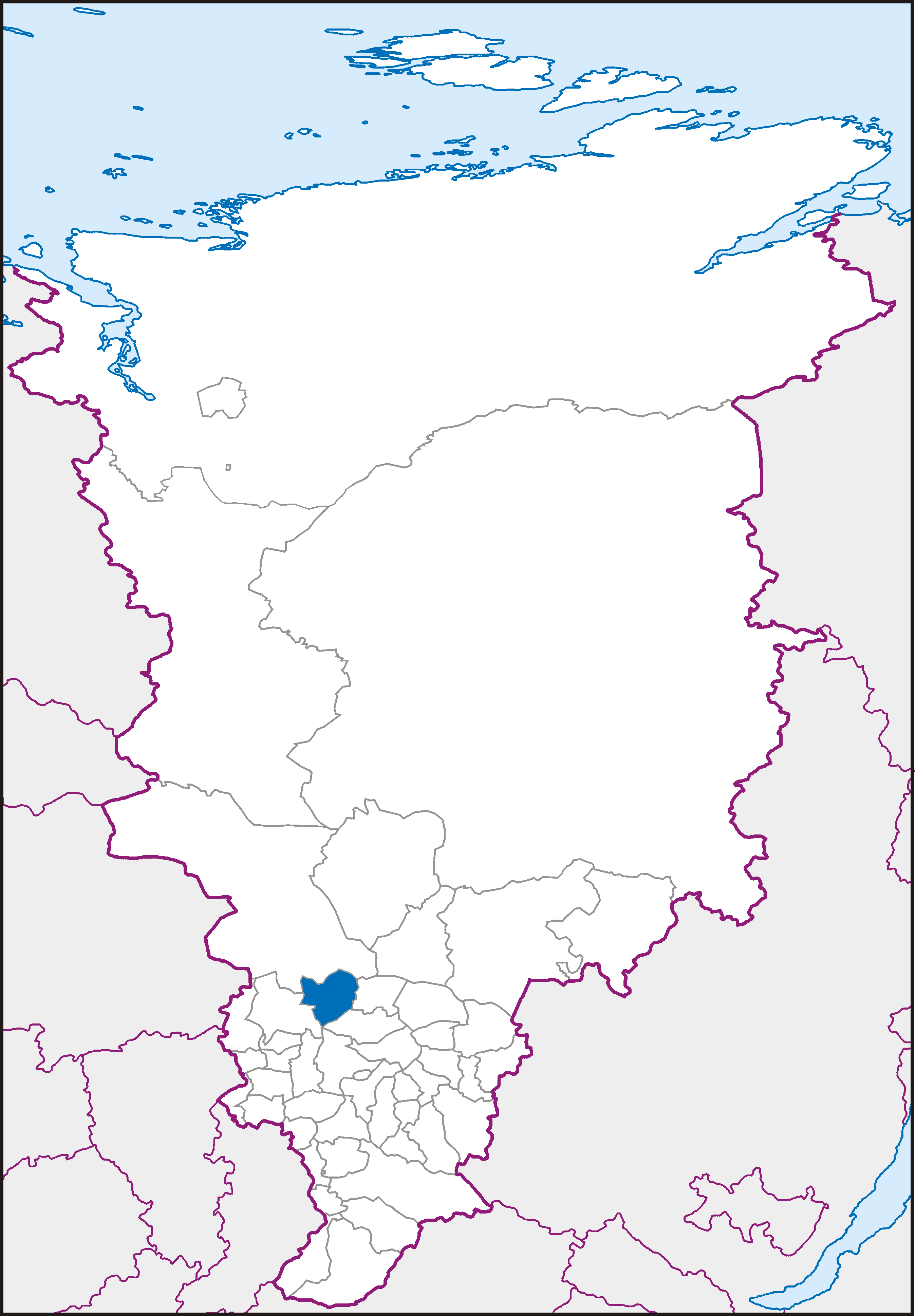 Map of Krasnoyarsk Krai in Albers Equal-Area Conic projection (Central Meridian = 95° E)